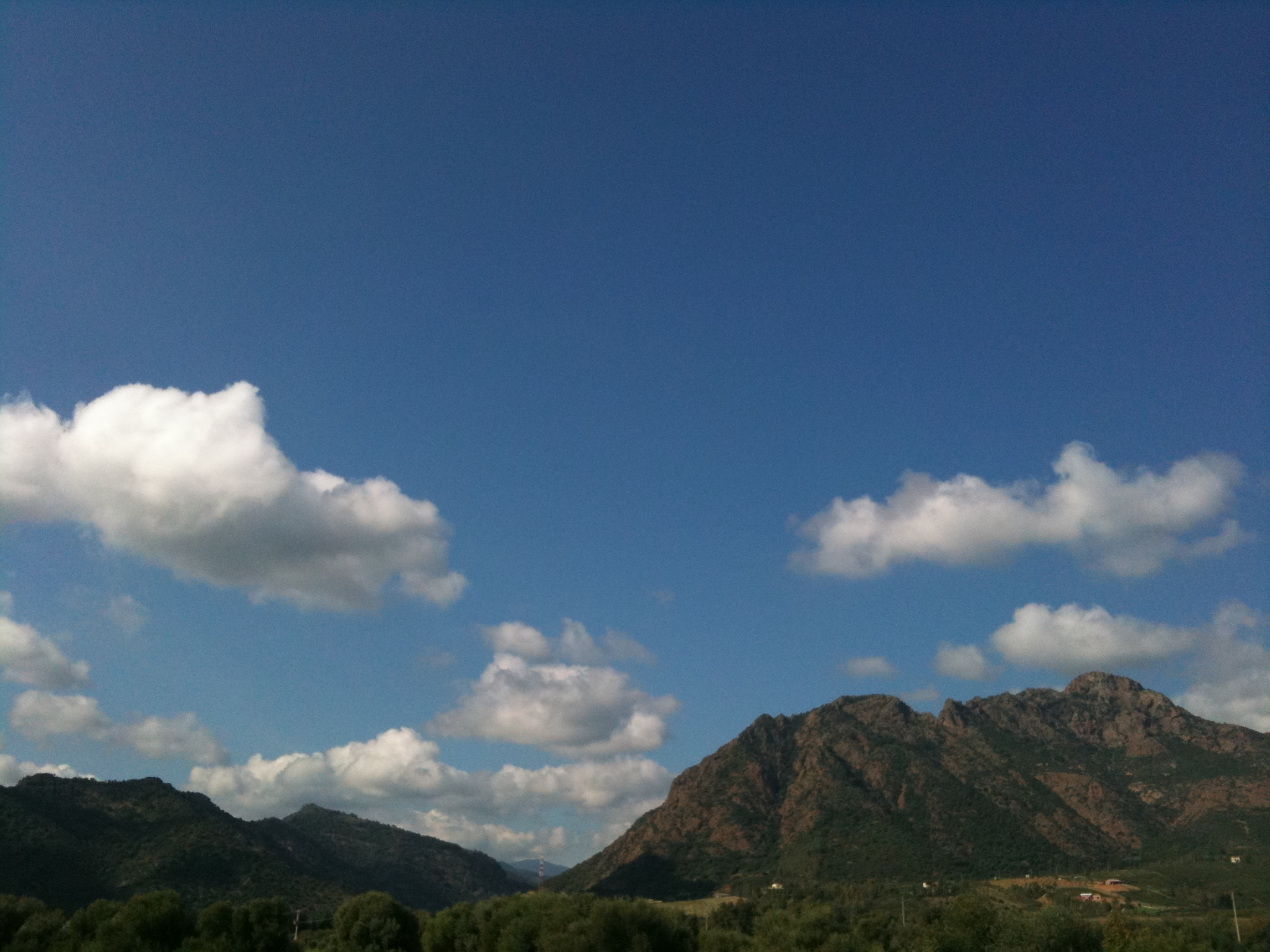 Colors of Sardinia